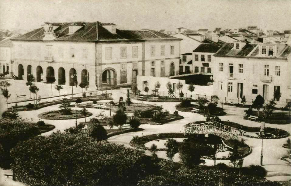 East Garden of Praça do Almada in 1917, civic center of Póvoa de Varzim, Portugal